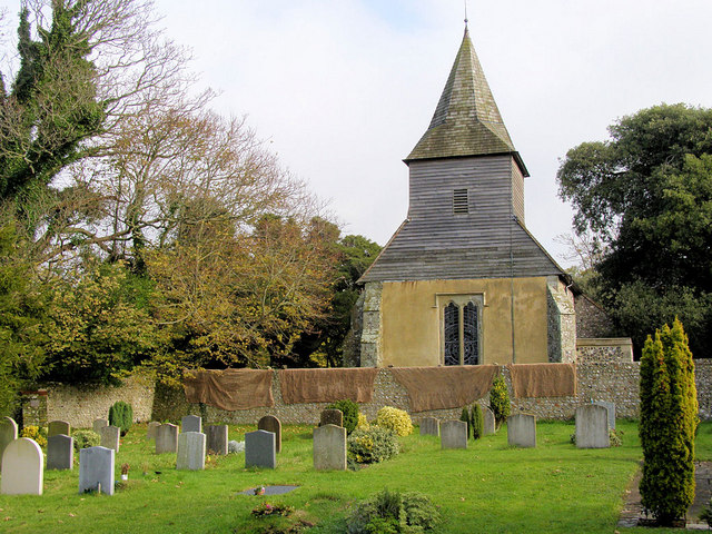 St Mary and St Peter Church, Wilmington This view shows the west of the church with its shingled spire with wooden facings. The large hessian sheets had been hung over the church wall to dry by a local craftsman who was making a flint wall nearby.